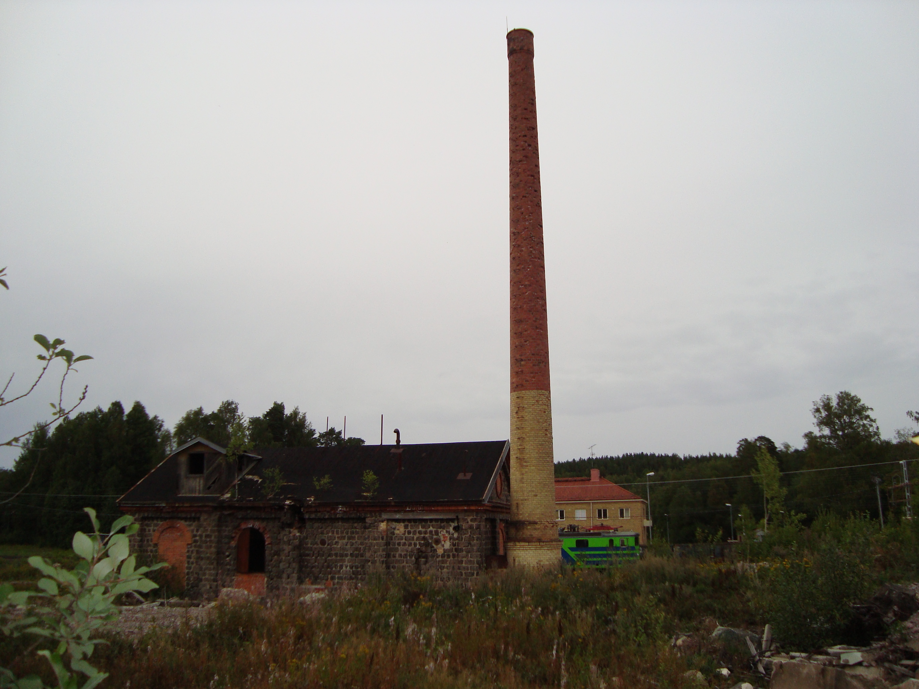 Burned down sawmill of Hofors and Train station of Hofors, Sweden. A passing cargo train with steel bulks.